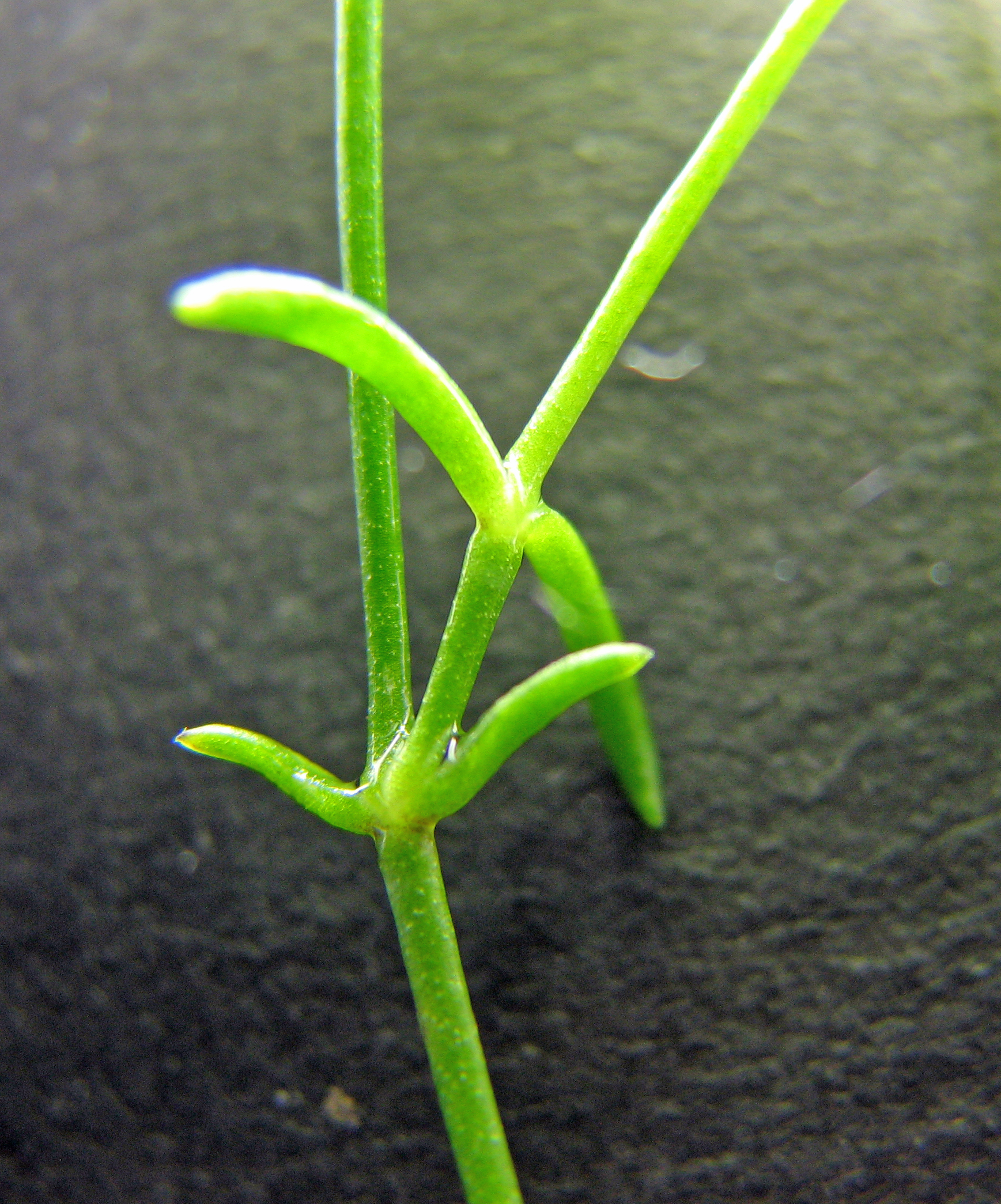 Moehringia bavarica, Gschwendtberg near Frohnleiten, Styria, Austria. About 800m